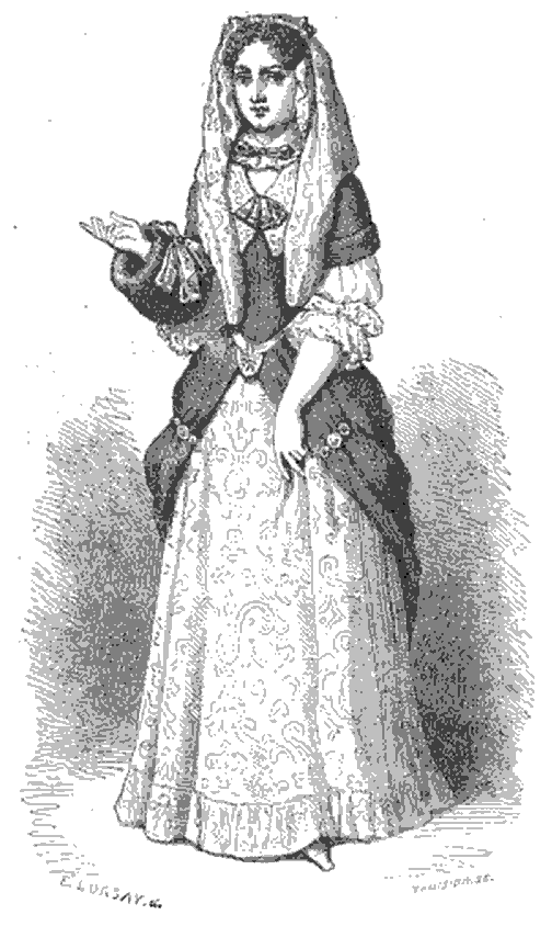 Picture of Madam d'Aulnoy, based on a 17th century print.